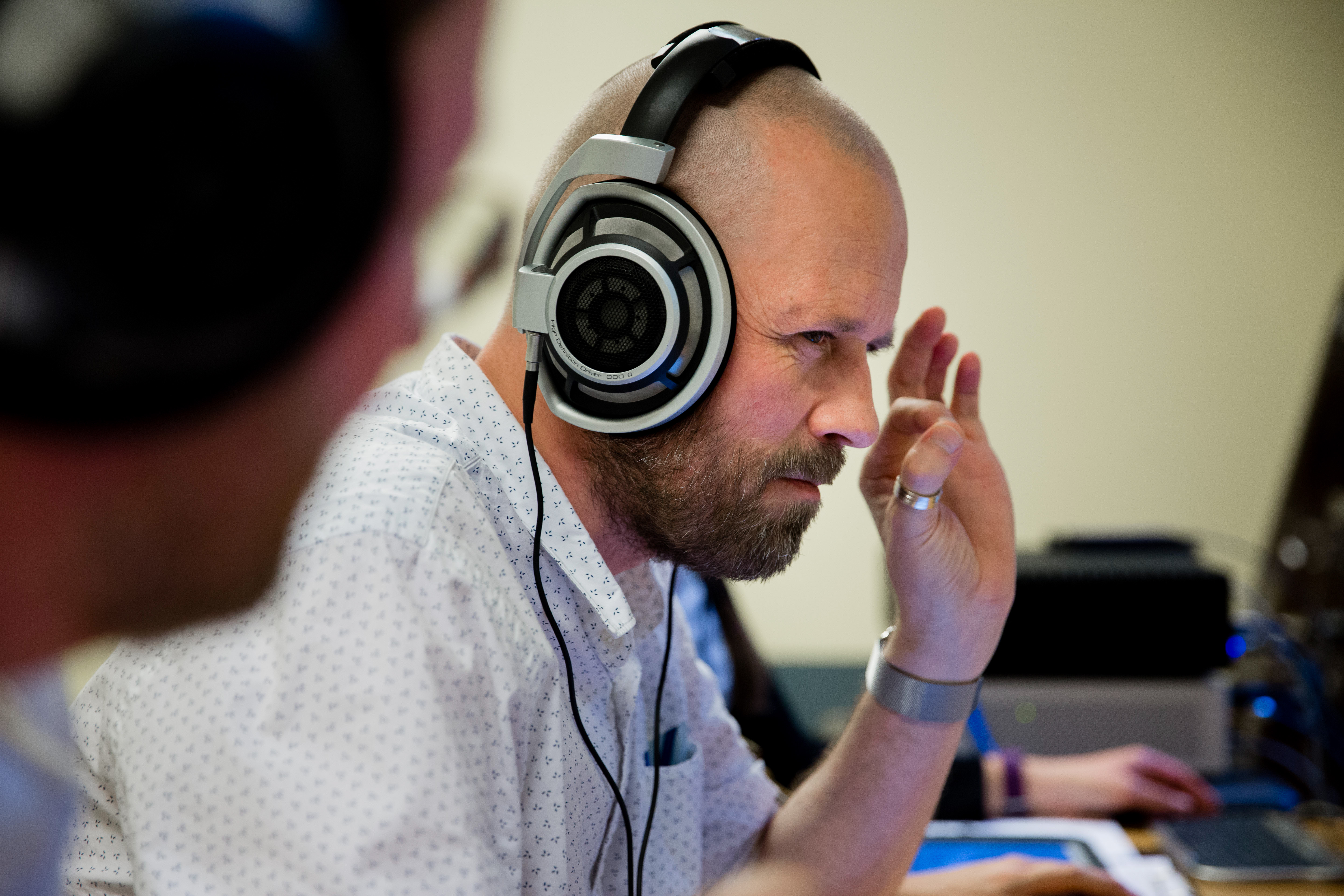 Morten Lindberg, Balance Engineer and Recording Producer